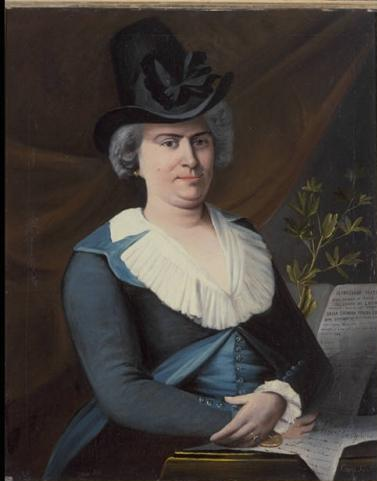 Teresa Ciceri Castiglioni by Seveso Ciceri, Giulietta